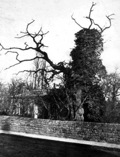 The shire oak in Headingley, Leeds, West Yorkshire, UK.